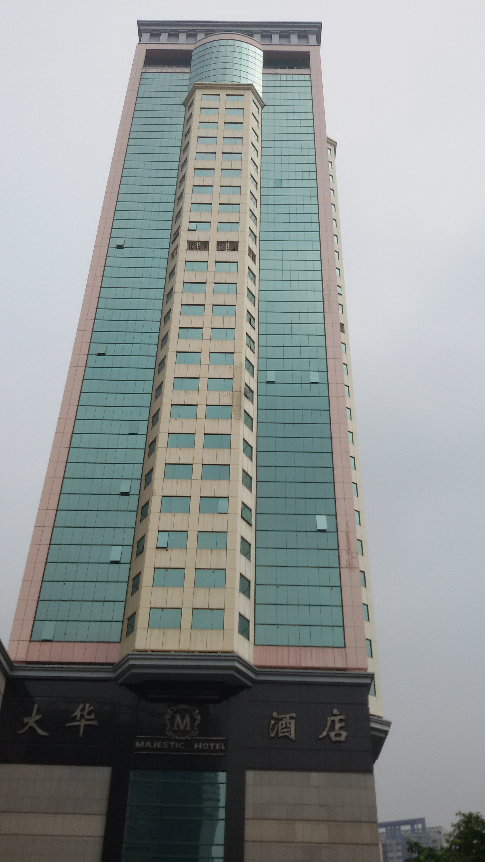 Guangzhou Majestic Hotel